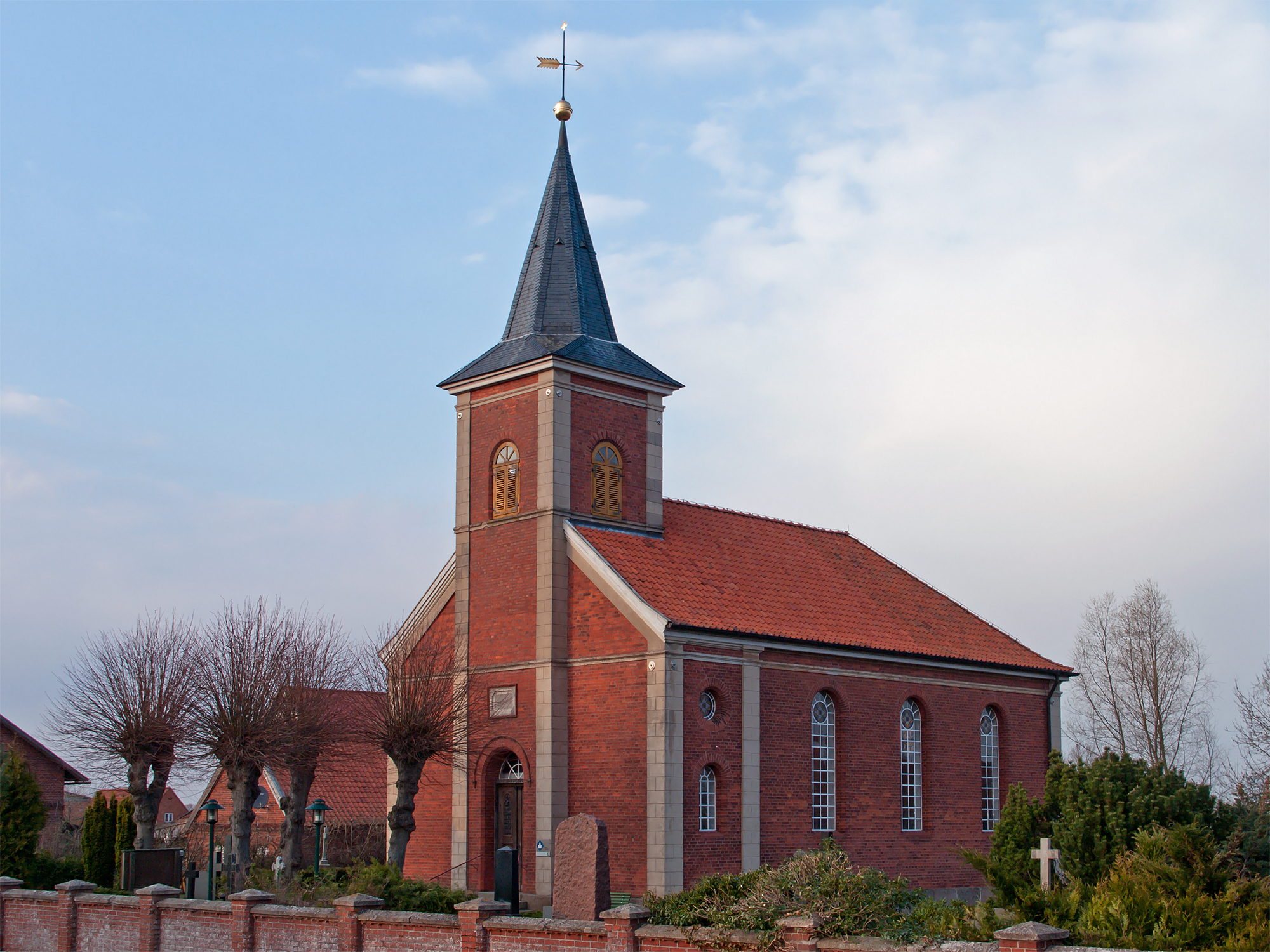 Chapel in the village Stiepelse (Amt Neuhaus, district Lüneburg, northern Germany).